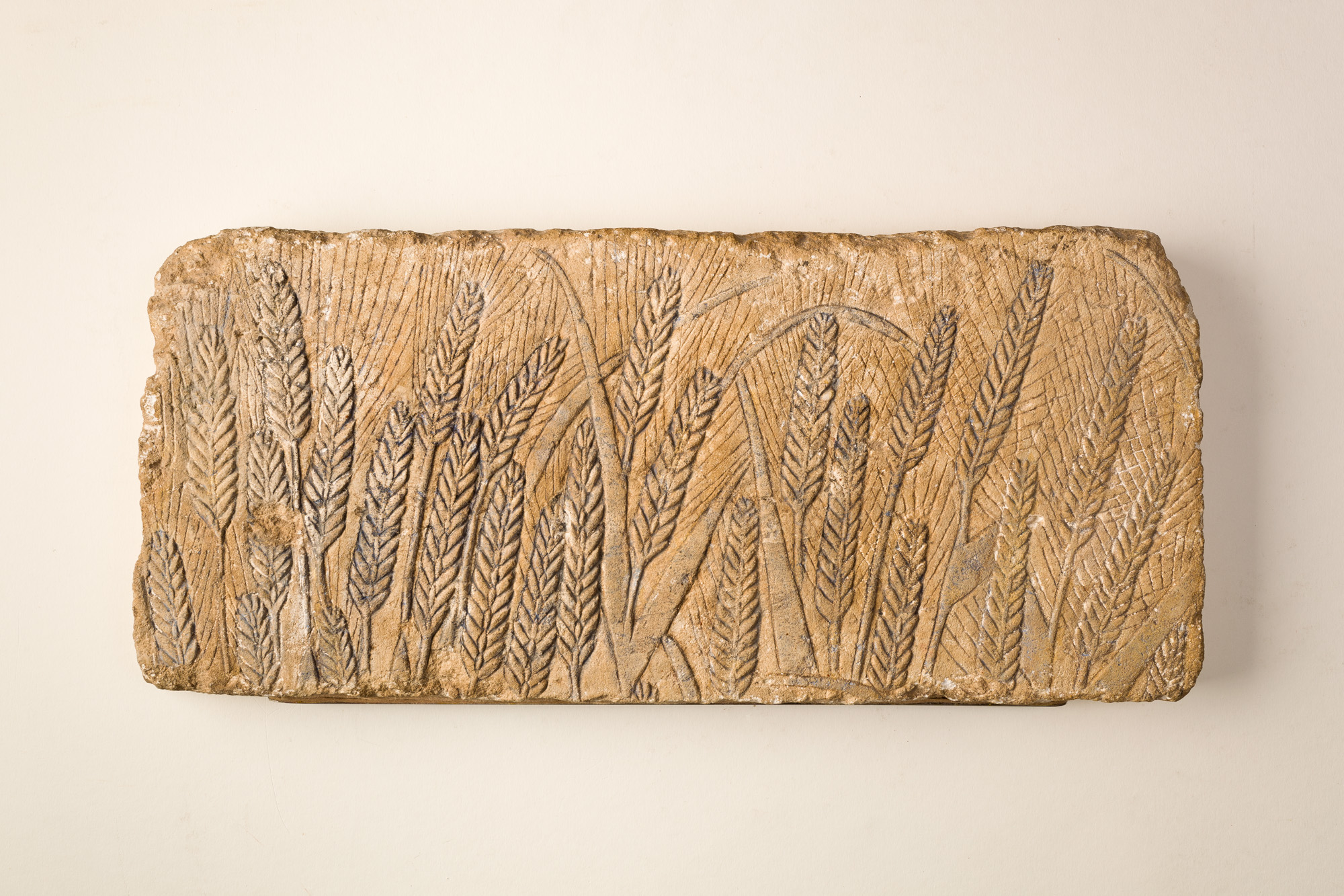 Talatat, grain